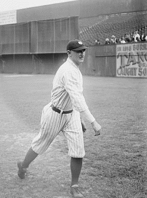 Carl Mays, New York AL (baseball) in 1922